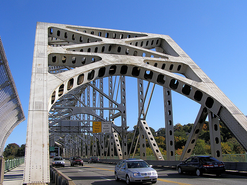 The Easton–Phillipsburg Toll Bridge connects Phillipsburg with Easton, Pennsylvania.